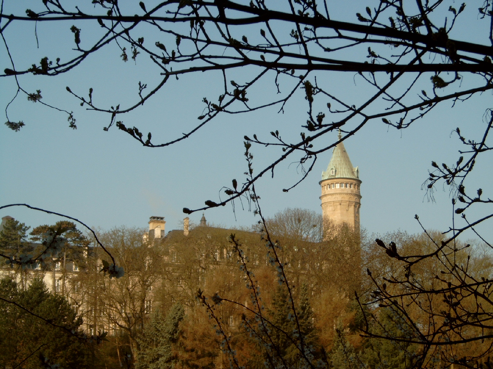 View of the buildings of the State Bank of Luxembourg.